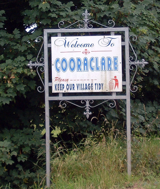 Cooraclare Village Sign The first thing you see coming into Cooraclare from the North